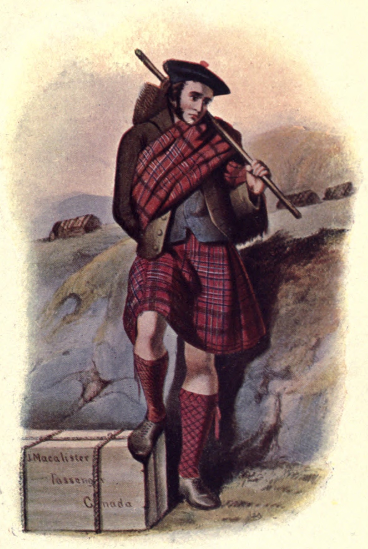 An illustration of on a member of Clan MacAlister, by R.R. McIan. This illustration is titled "Mac Alastair". This particular illustration comes from The Highland clans of Scotland; their history and traditions (1923), yet McIan's illustrations were first published in the mid-19th century.